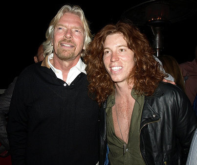 Richard Branson and Shaun White at the Virgin America OC Launch.